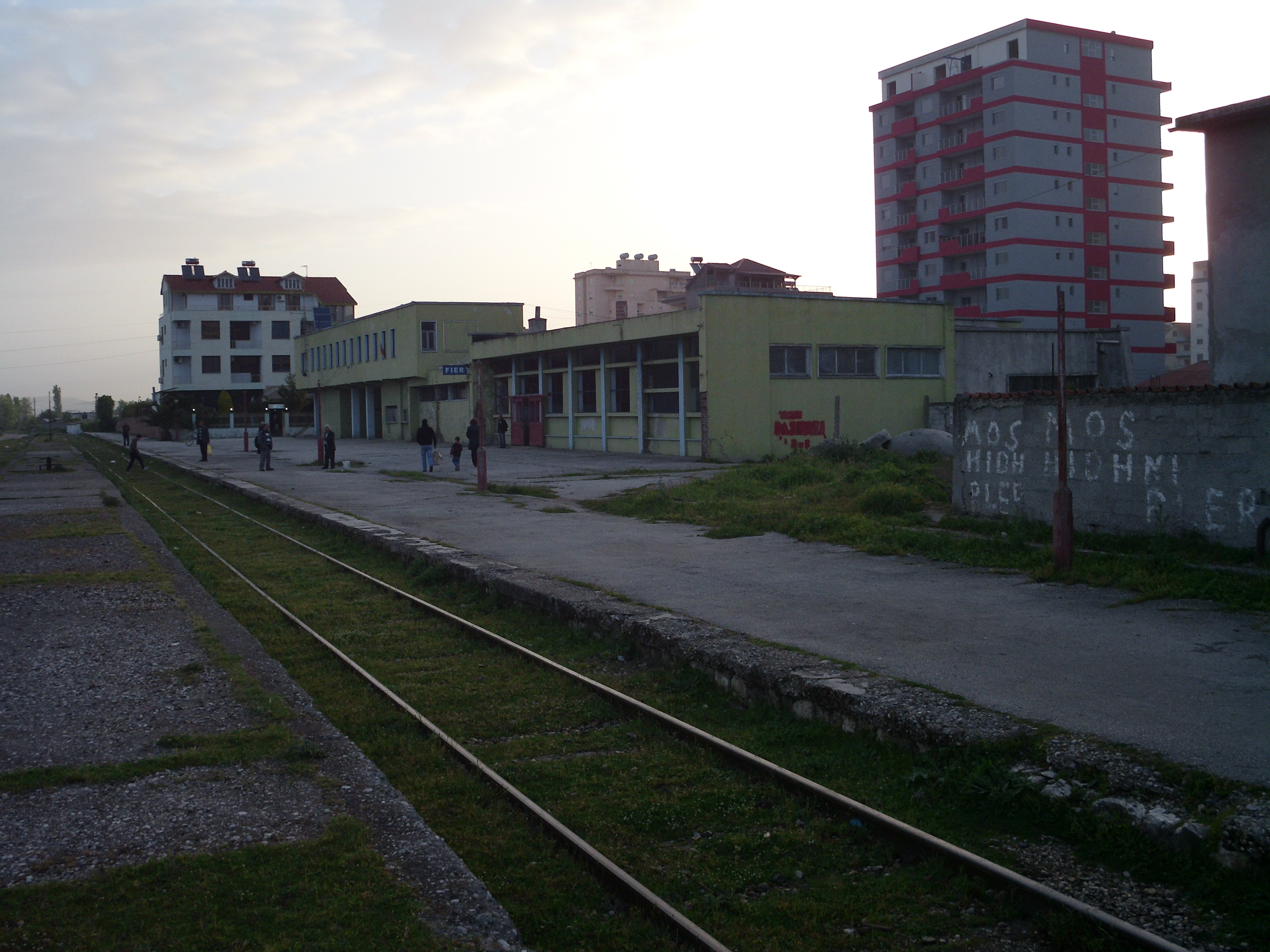 Train station in Fier, Albania, as seen from a platform.